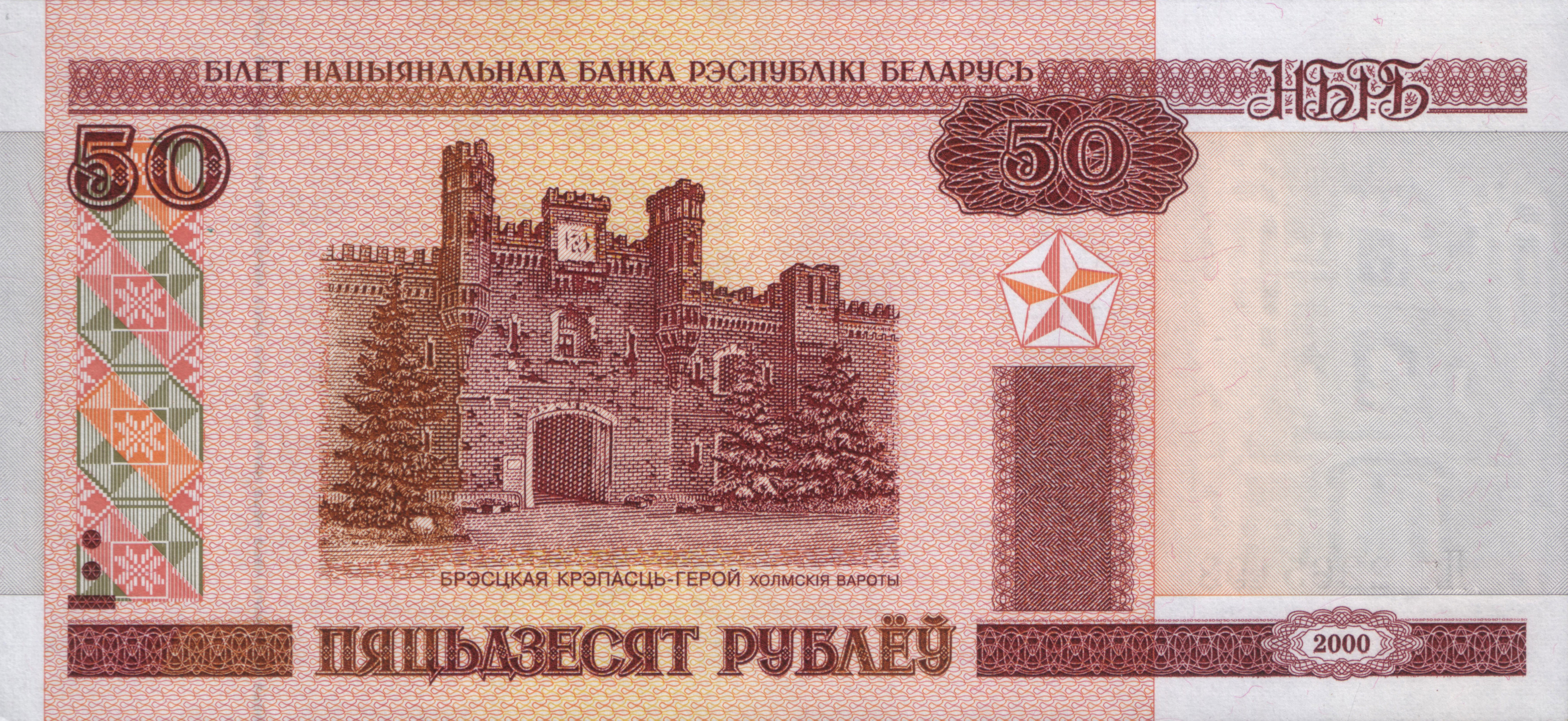 50 roubles of Belarus (2000)